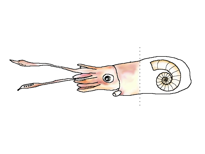 Drawing of Ram's Horn Squid Spirula spirula with cross section showing the placement of its shell